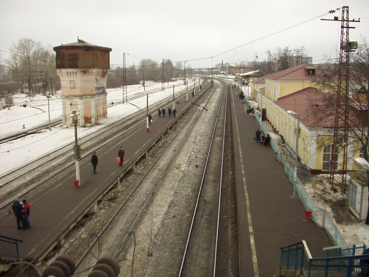 Pavlovsky Posad station, Moscow Oblast